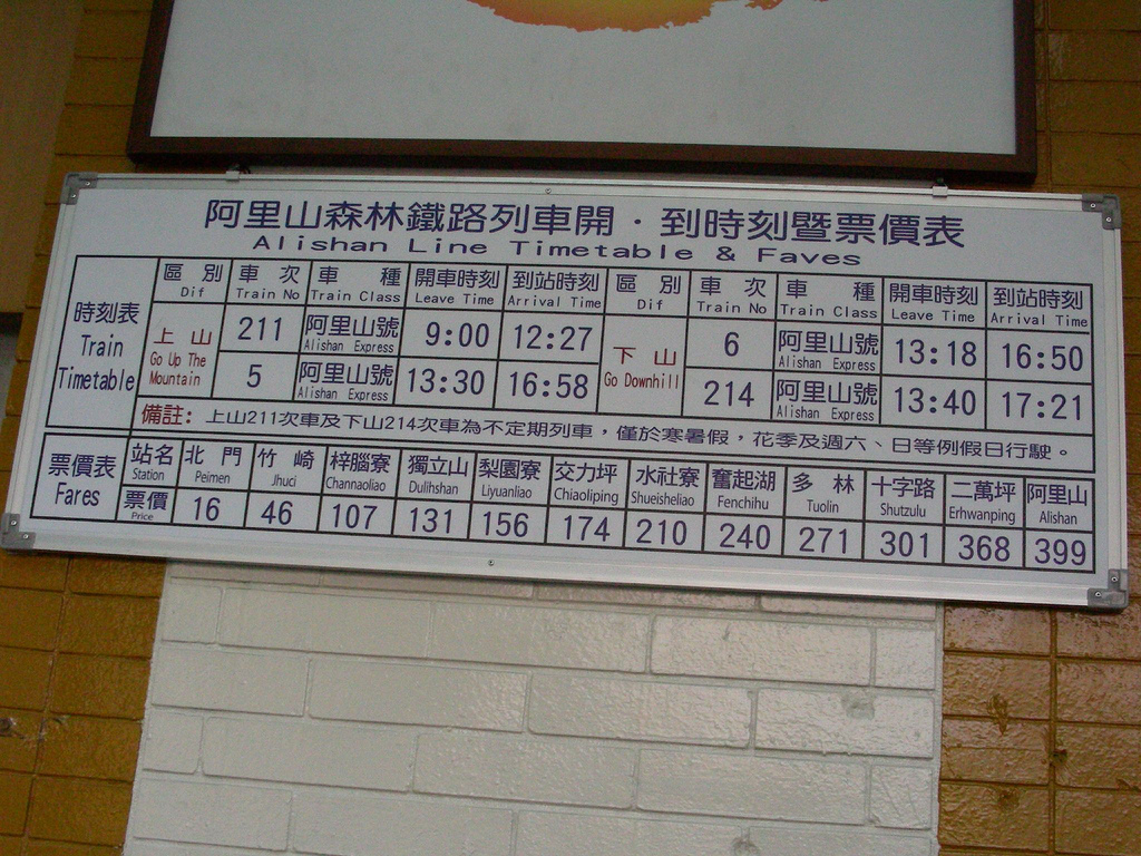 Alishan Forest Railway Chiayi Station train schedule & fares.